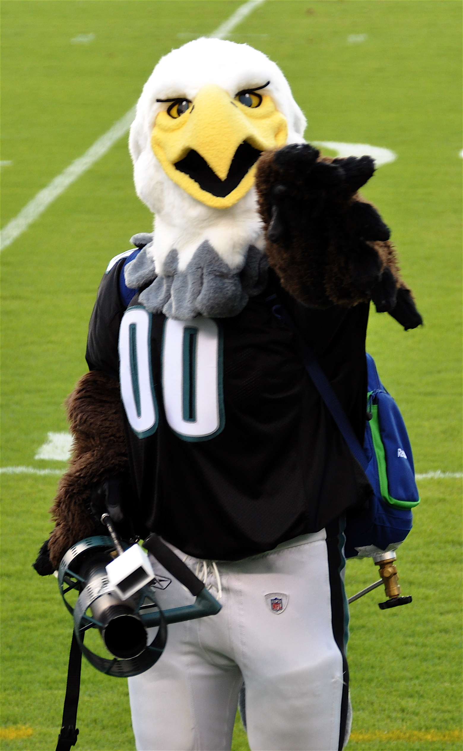 Swoop, the official mascot of the Philadelphia Eagles